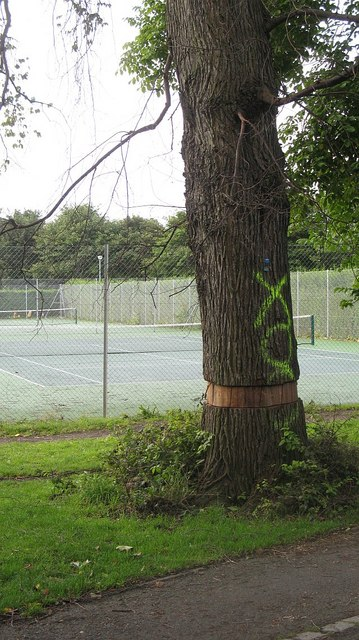 Ringbarked elm, The Meadows Probably a quick fix to slow down disease transmission before the tree is finally removed from an awkward confined space.